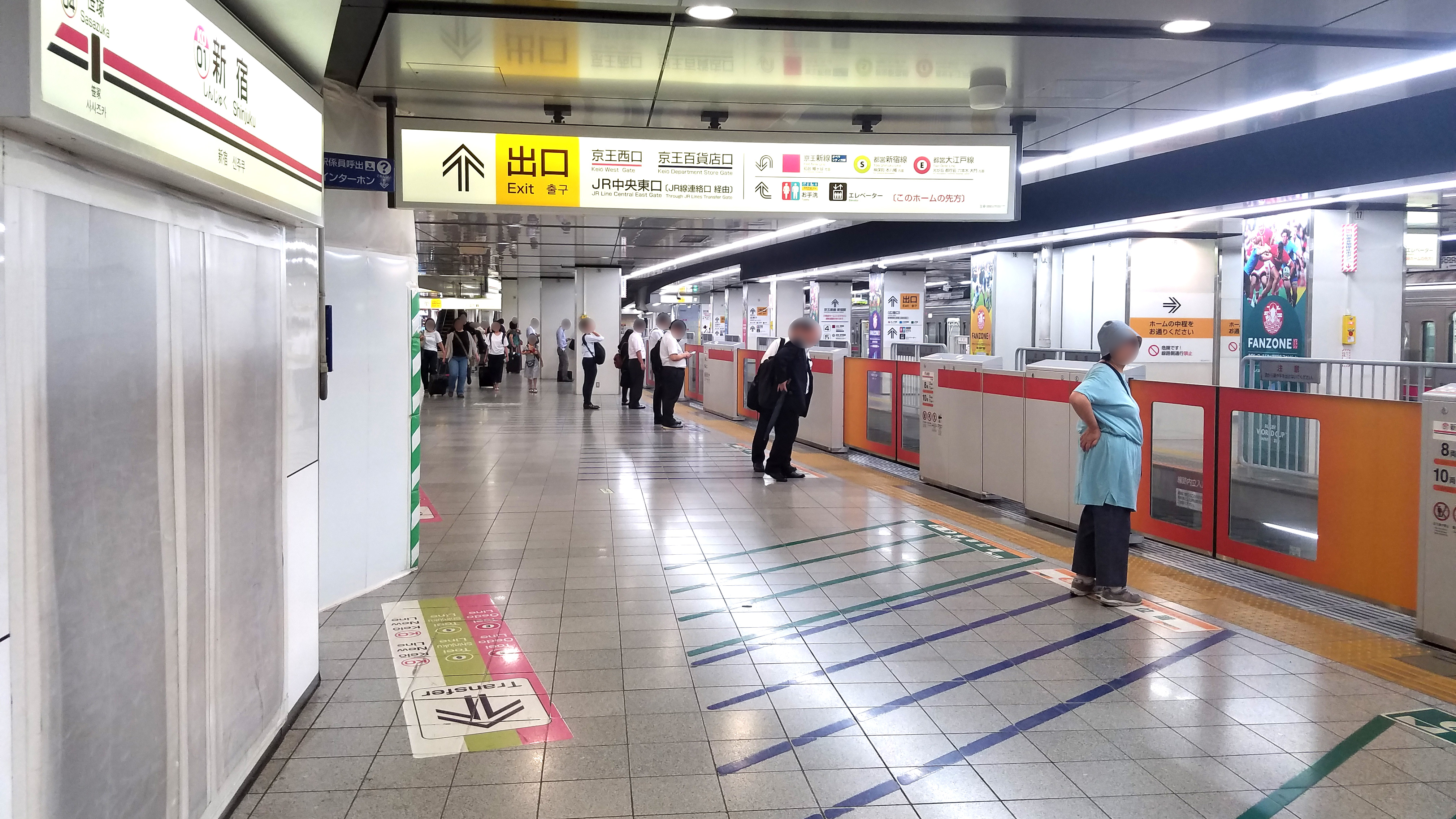 The platforms at Shinjuku Station on the Keiō Line in Shinjuku city, Tokyo, Japan